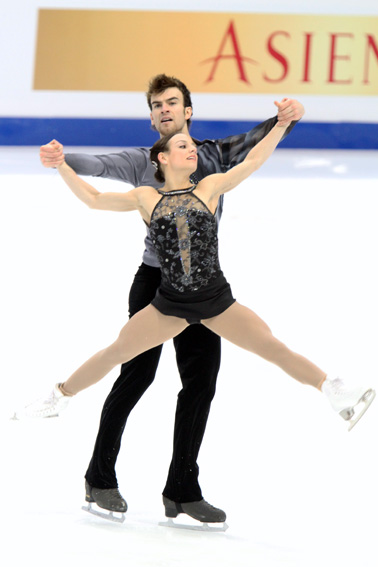 Meagan Duhamel and Eric Radford at the 2011 Four Continents Championships.